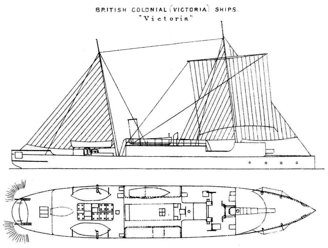 Diagrams showing starboard elevation and deck plan of Australian colonial gunboat HMVS Victoria.